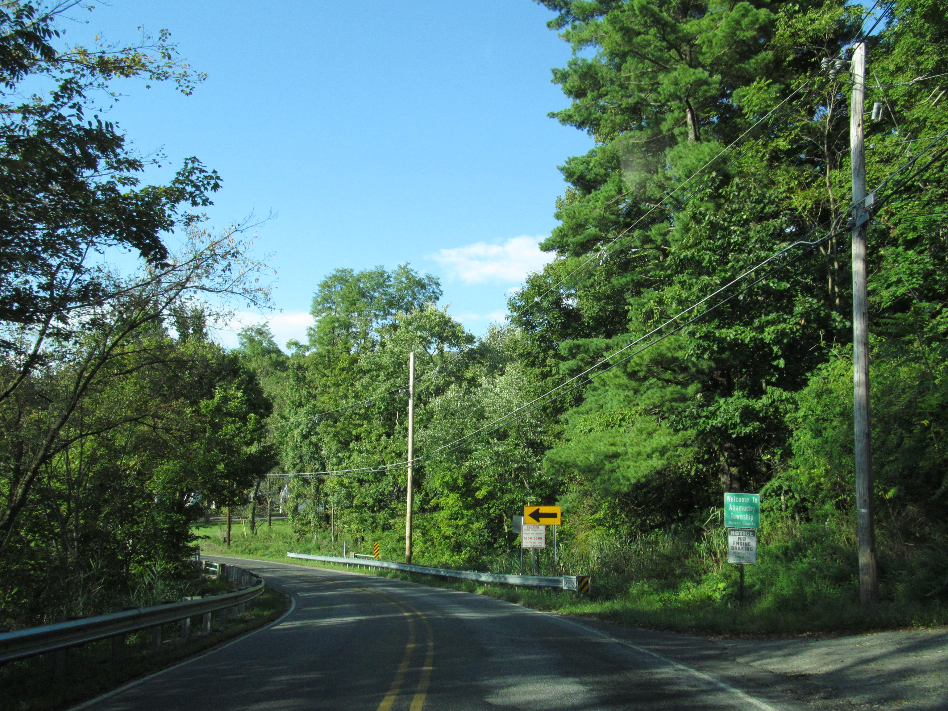 Entering Allamuchy Township, New Jersey, along Alphano Road